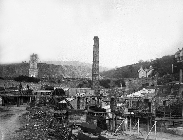 In the background to the left there is the huge 'deads' pile of waste material. Nearer to the camera we get a good view of the water wheels and leats as well as the railway system at ground level. The house to the right of the tall chimney was Snaefell View, later to become the Laxey bus terminal. Beneath that is engine shed for the two small locomotives 'The Bee' and 'The Ant' which brought the ore from the mines out through the tunnel to the left of the engine shed and then tipped down for crushing and washing.